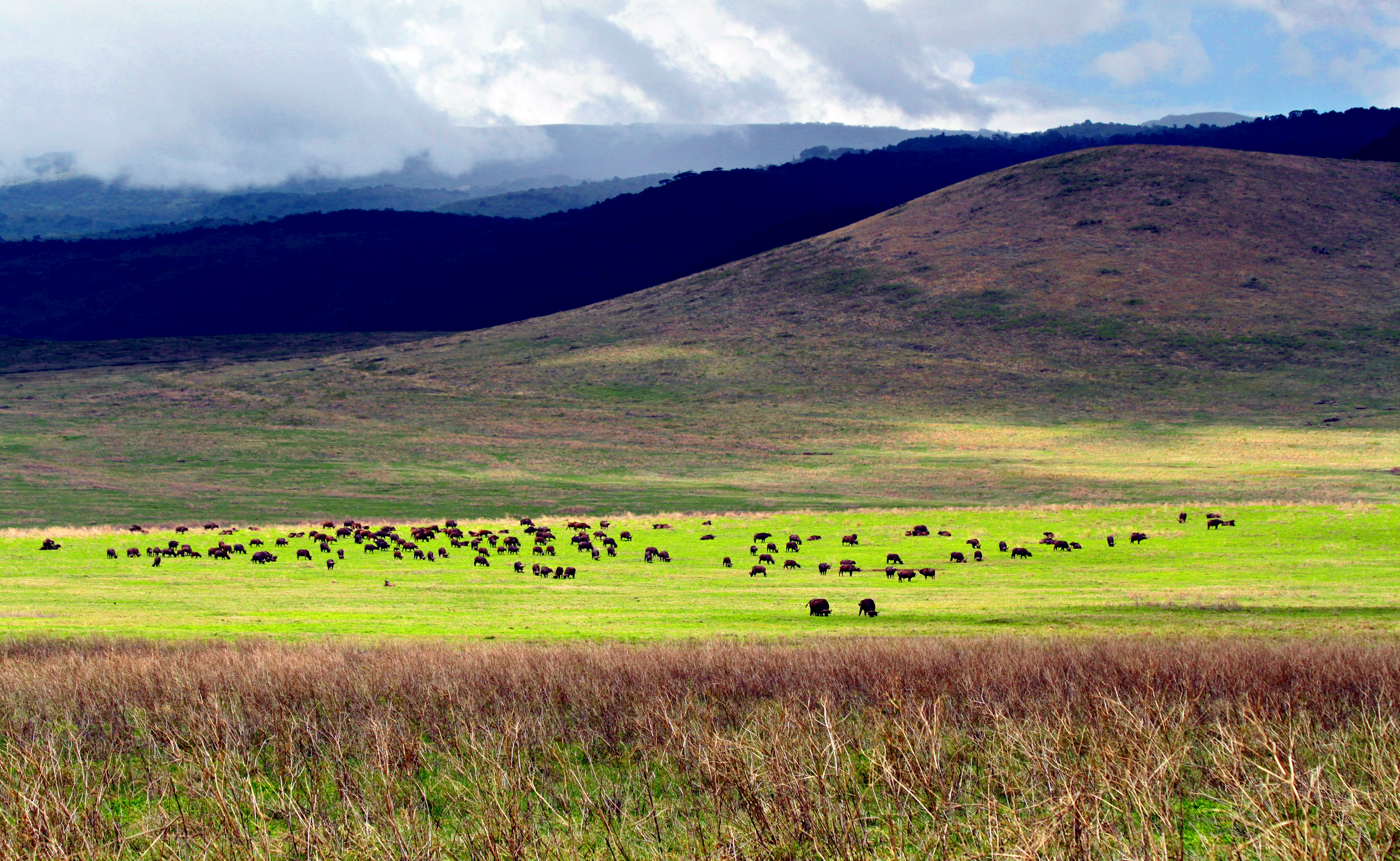 View of Ngorongoro from Inside the Crater